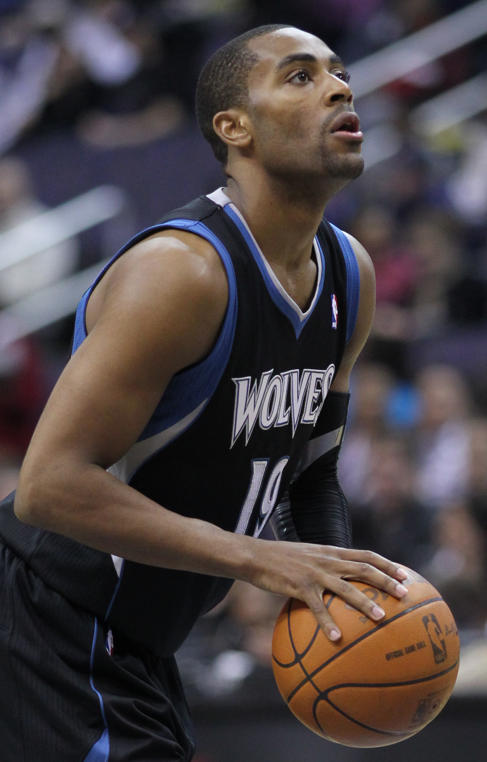 Wizards v/s Timberwolves 03/05/11